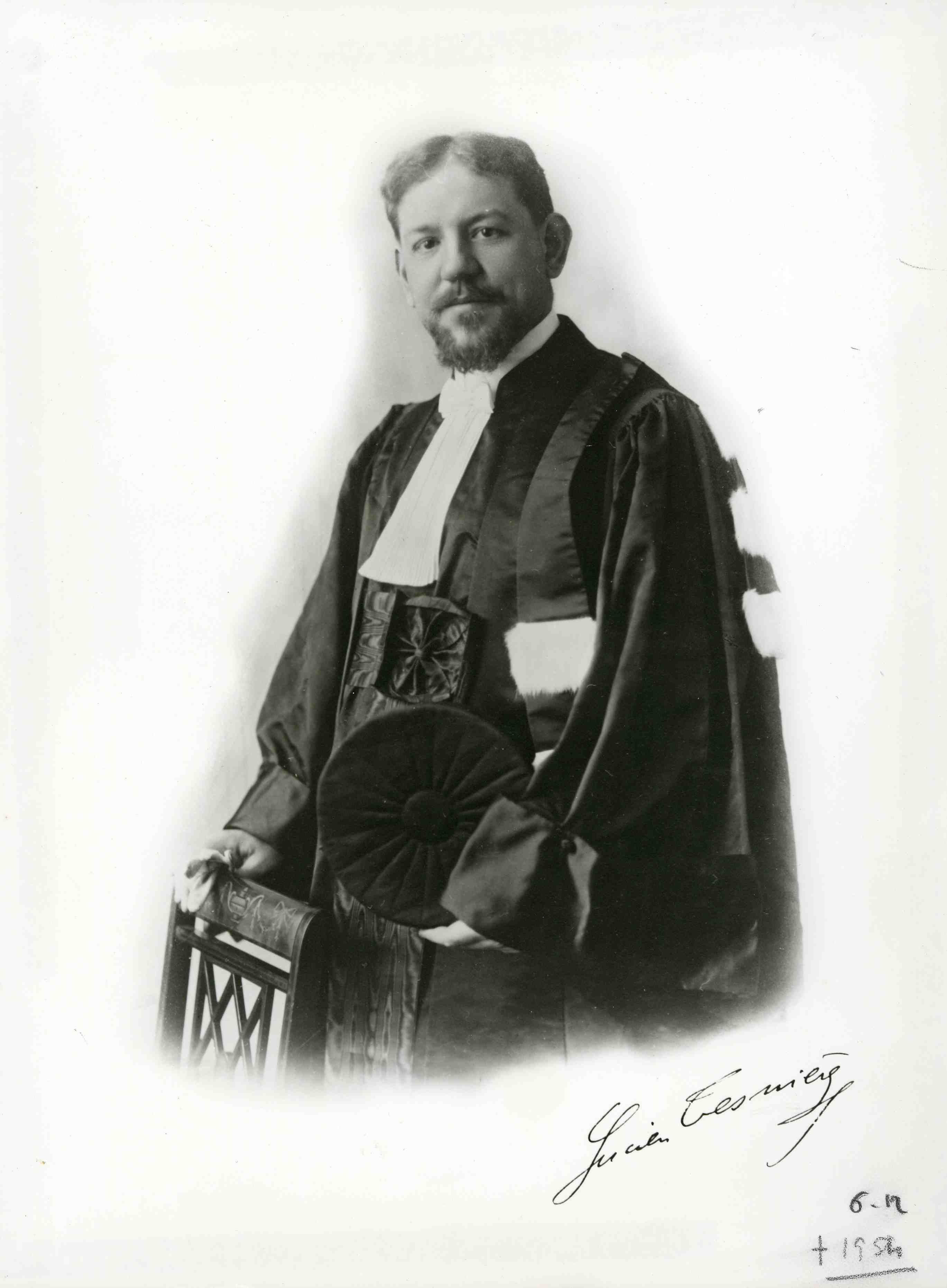 Lucien Tesnière, famous French linguist